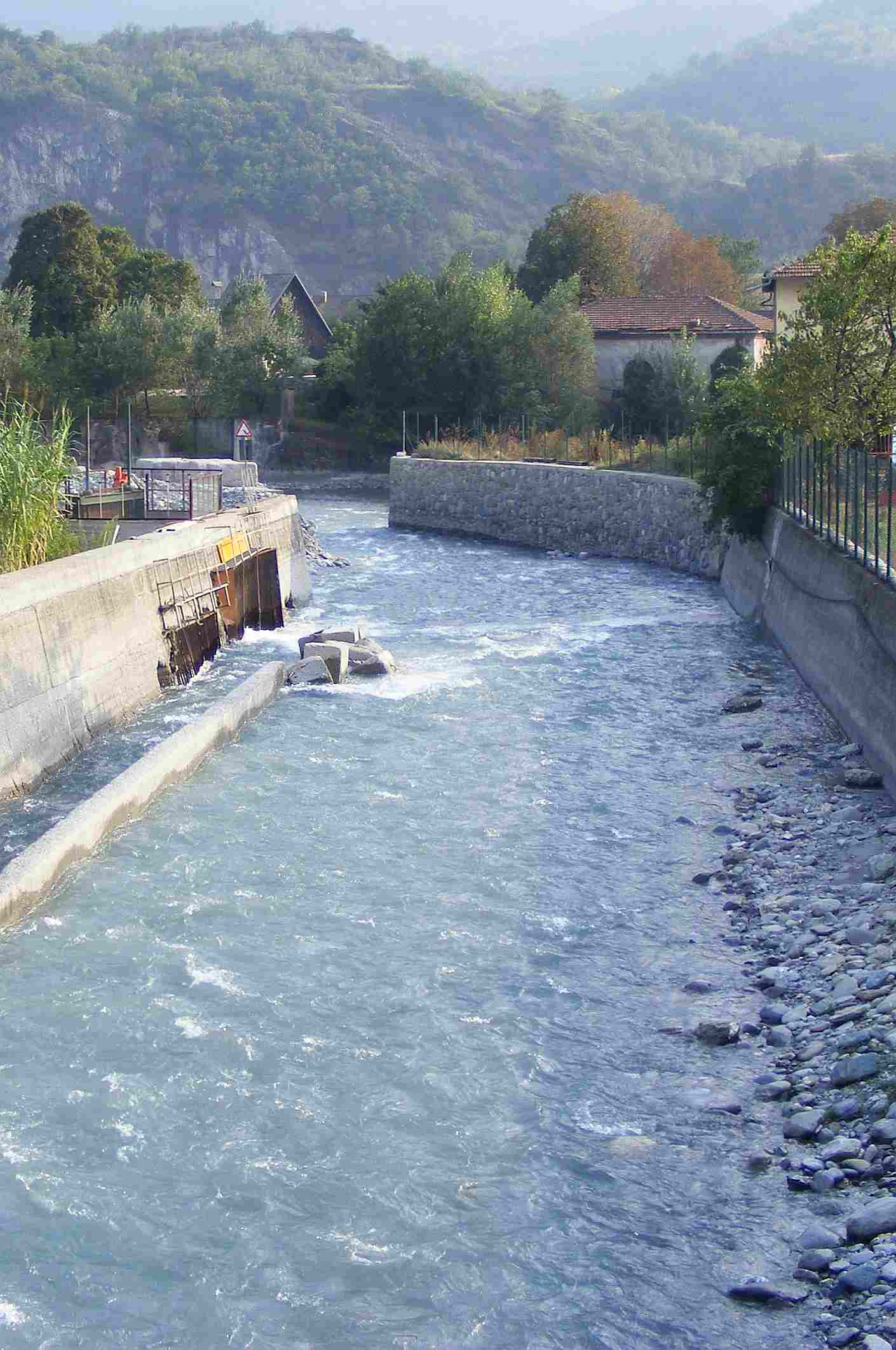 Cenischia creek fron national road 25, near Susa (TO, Italy)